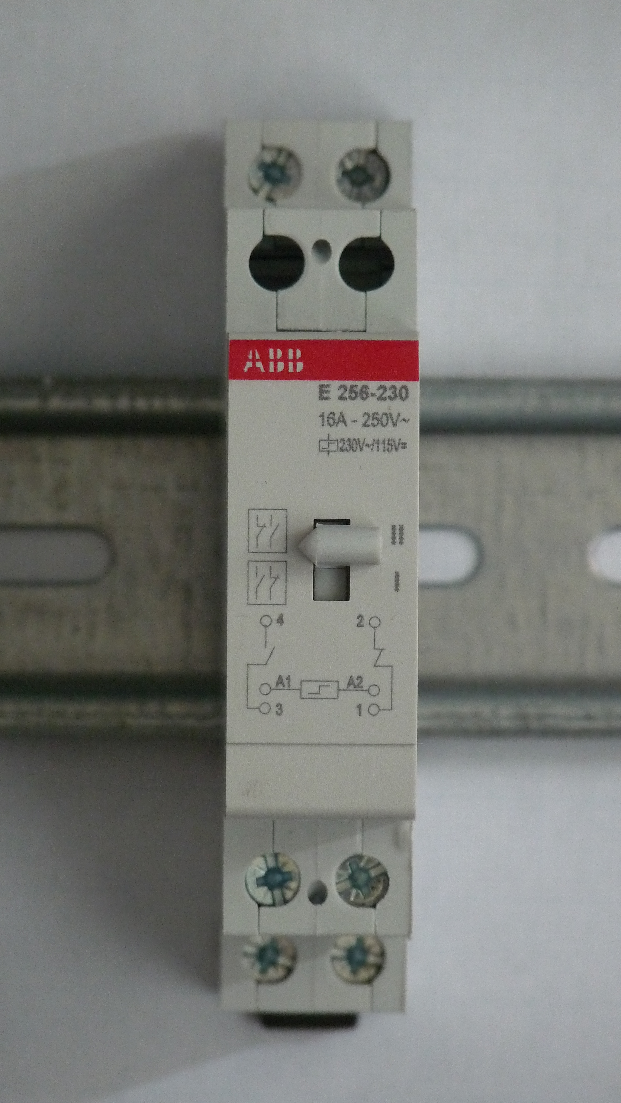 ABB memory relay